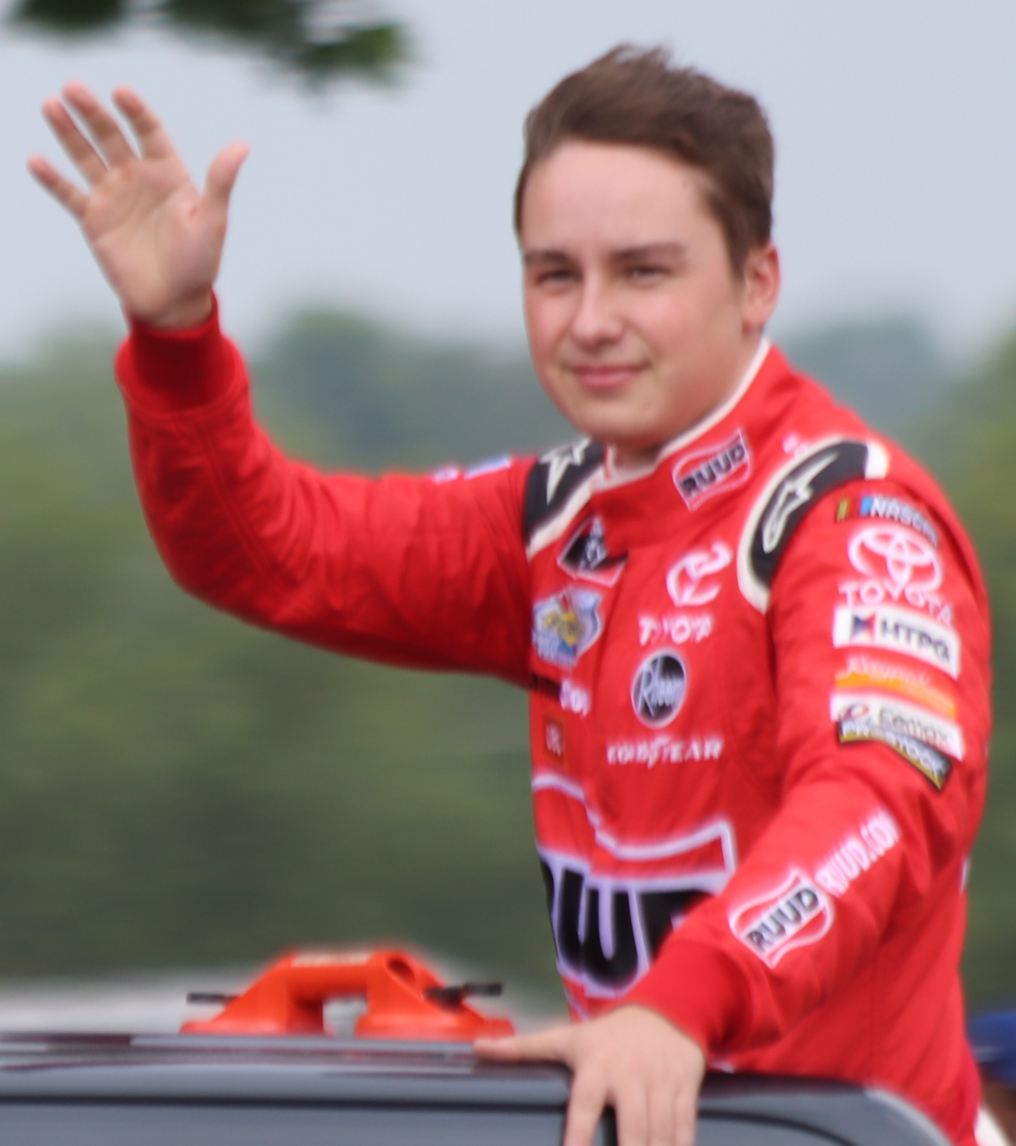 NASCAR Xfinity Series driver Christopher Bell waves to fans at the 2018 Road America race.